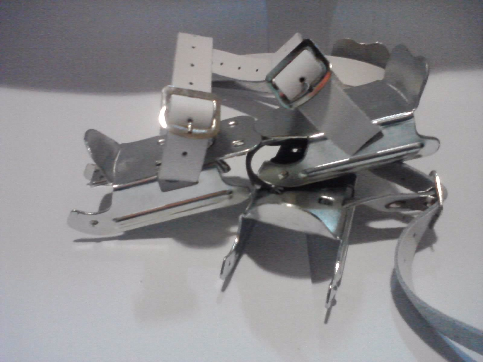 Children’s skates